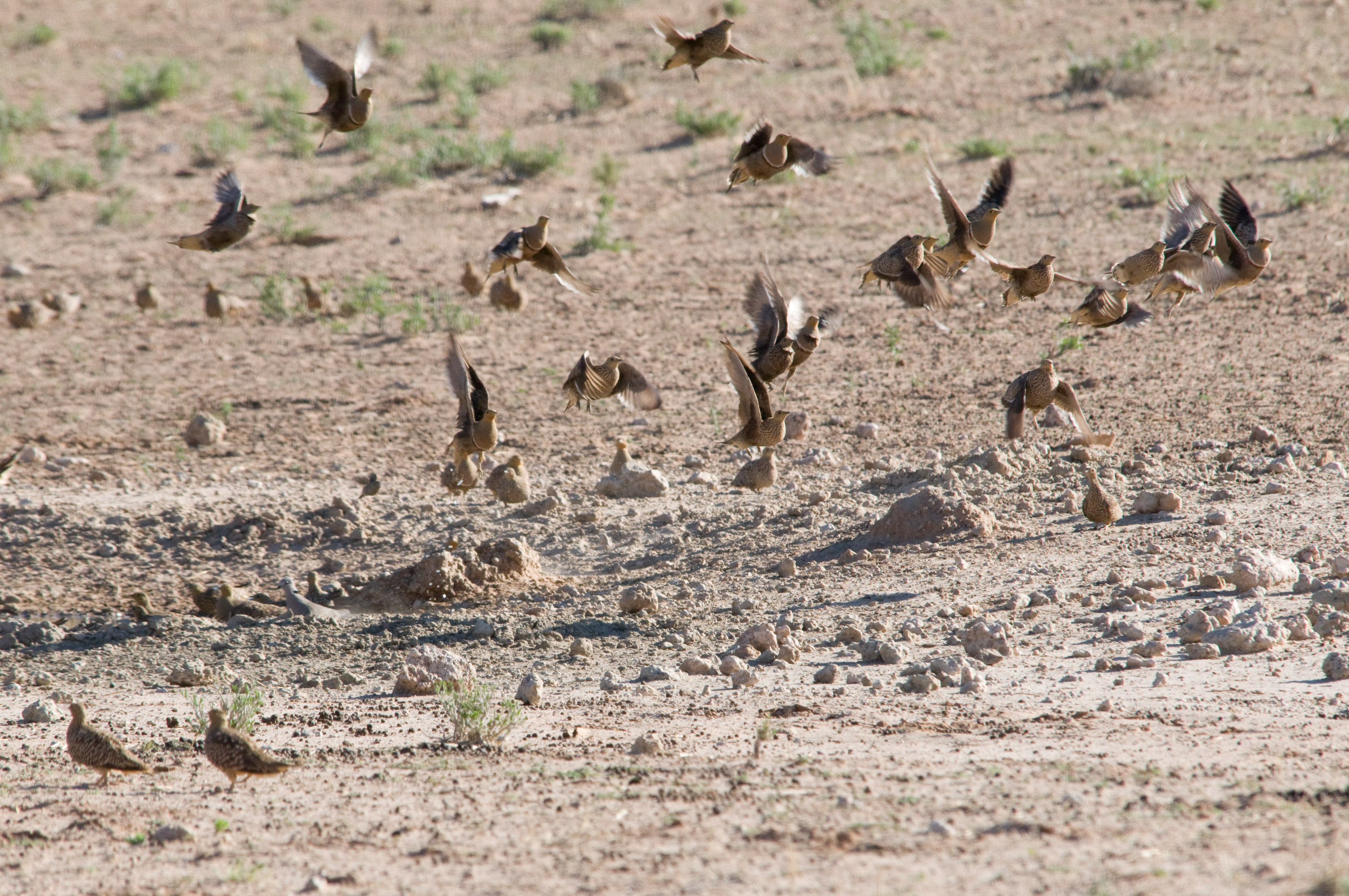 Flock of Namaqua Sandgrouse in the Kalahari, South Africa